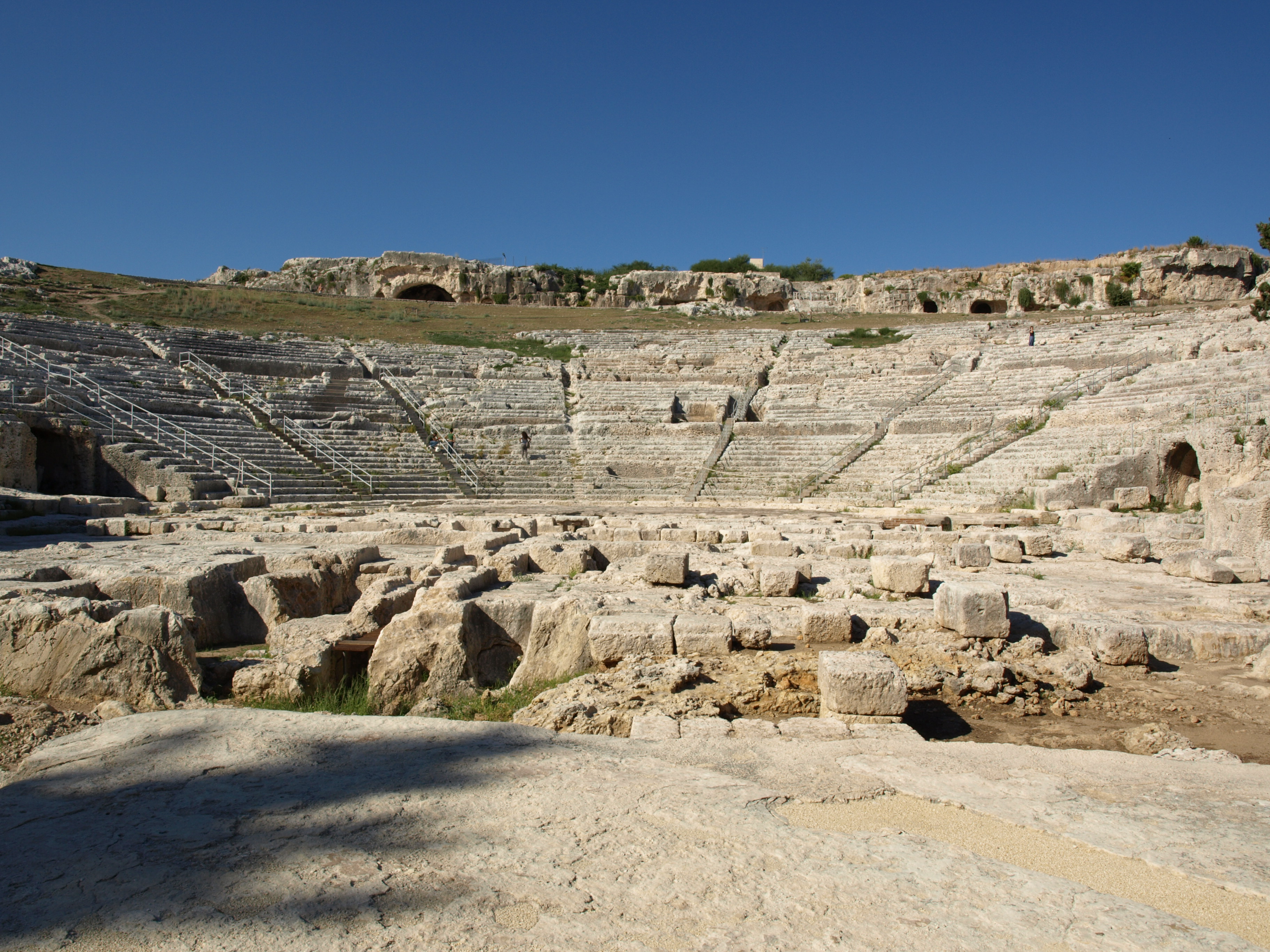 Frontal view of the Greek theater of Syracuse.